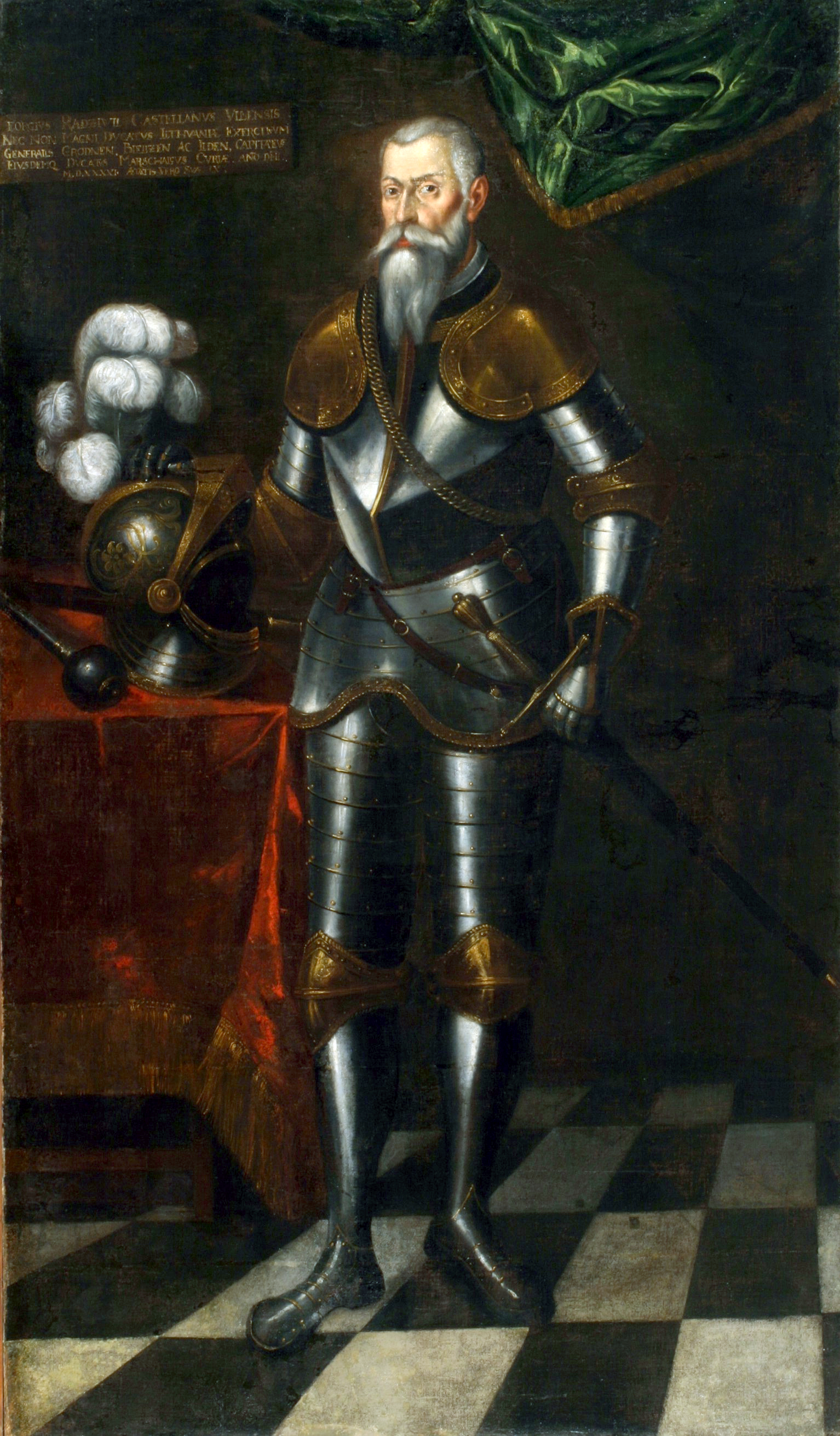 Jerzy Radziwiłł Herkules (1480-1541)